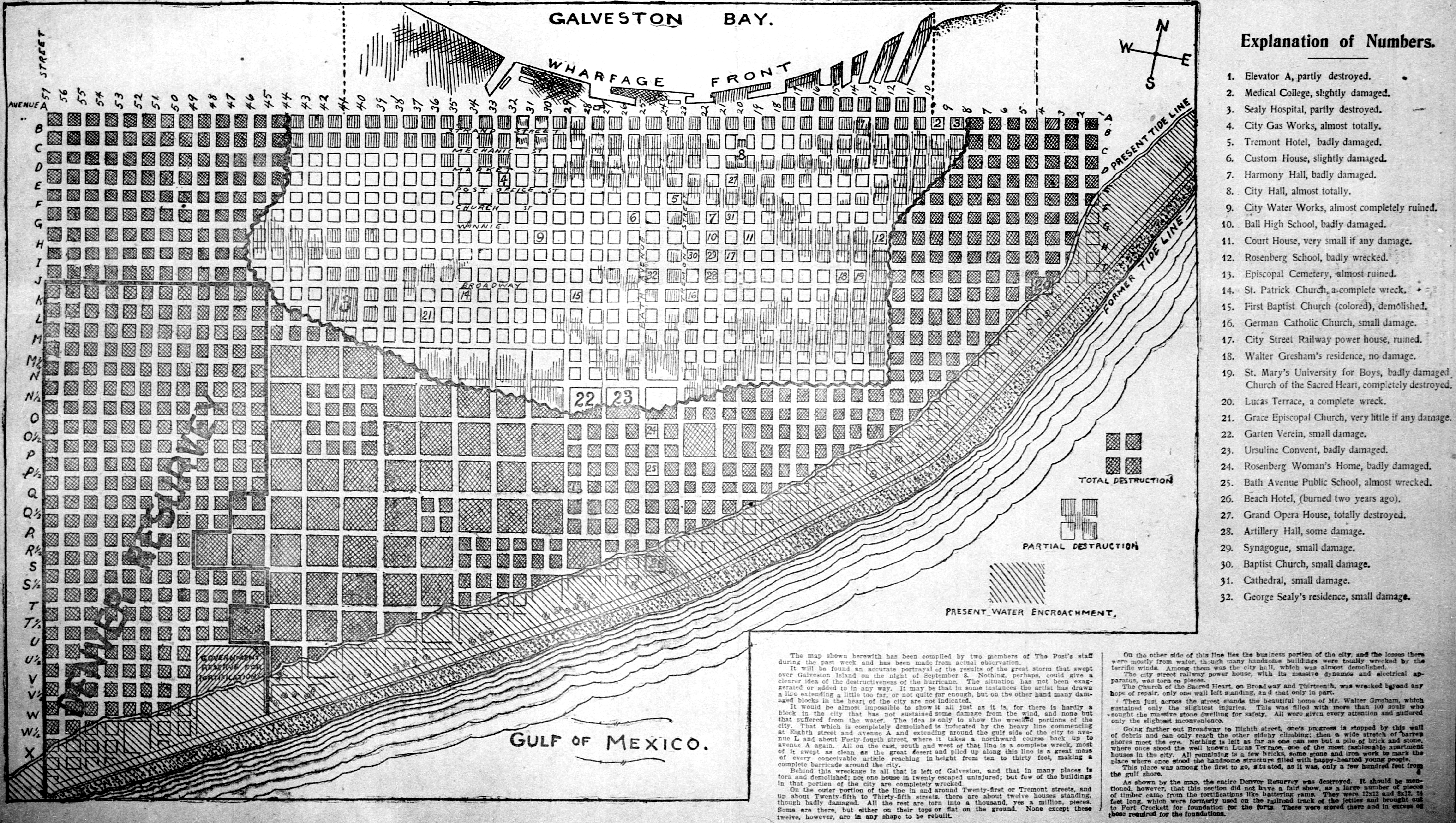 A map of Galveston illustrating the destruction of the 1900 hurricane. Originally published in The Houston Post on September 27, 1900